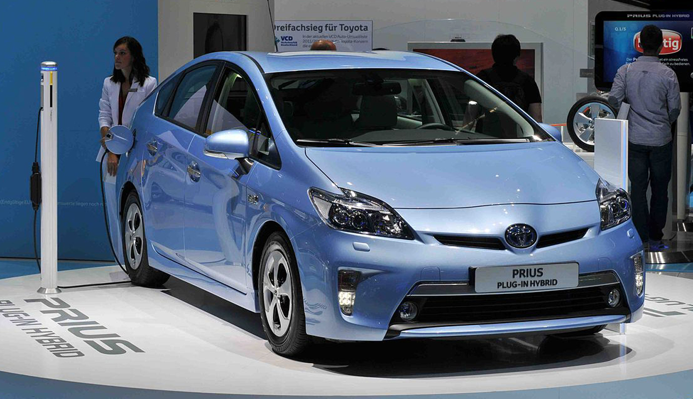 2012 Toyota Prius Plug-in Hybrid at the 2011 Frankfurt Motor Show